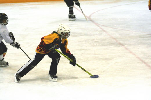 Personal photograph taken of family member playing Ringette in Ontario